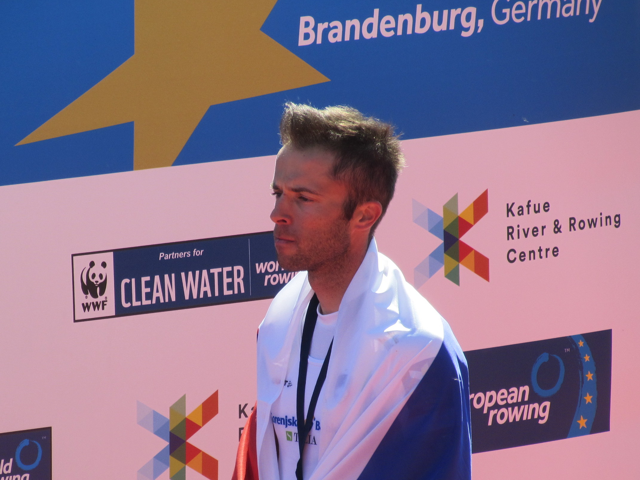 Rajko Hrvat at the 2016 European Rowing Championships in Brandenburg an der Havel, Germany